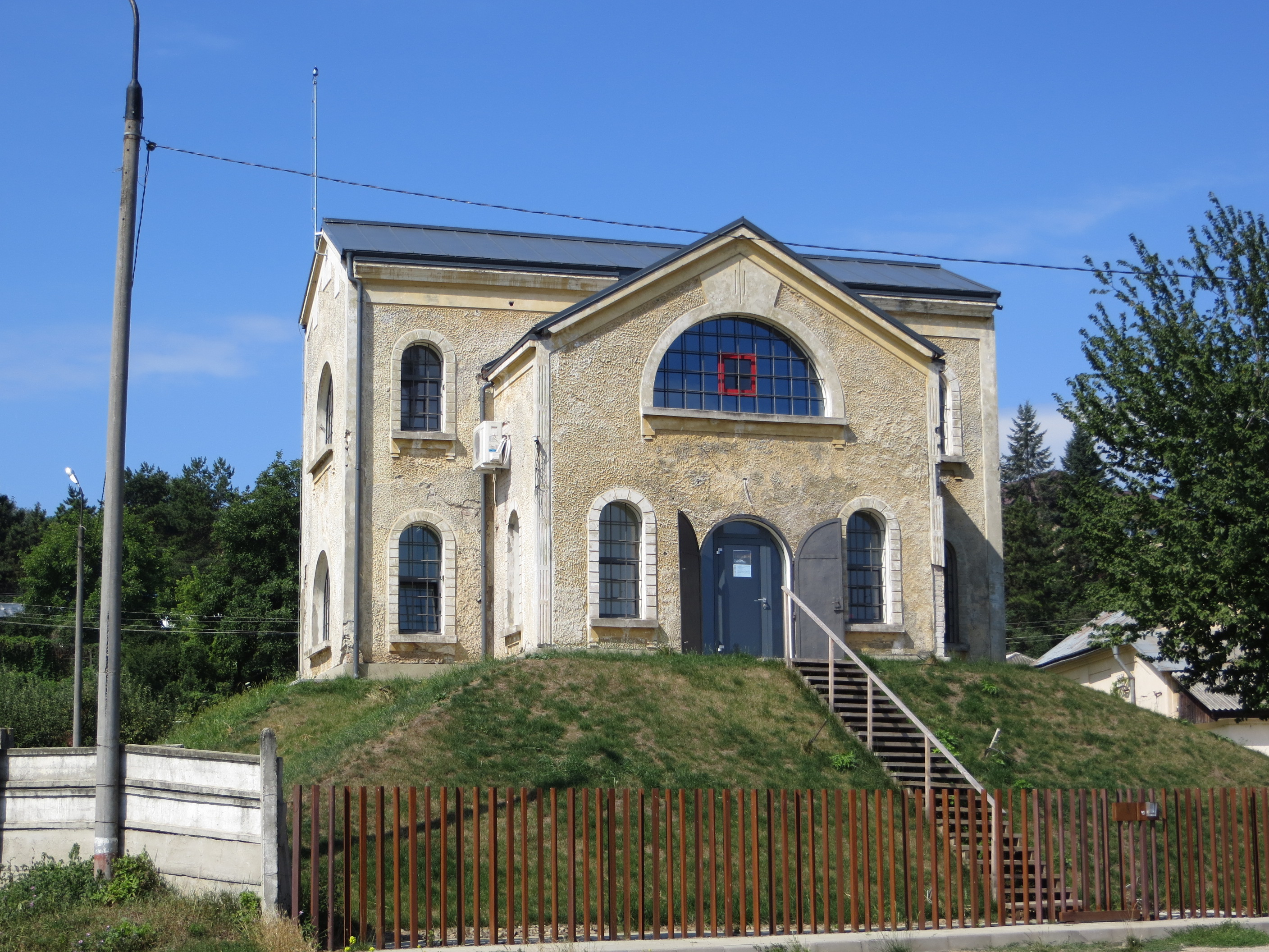 The Water Plant in Suceava.